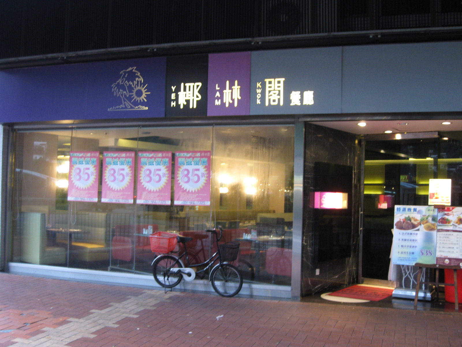 Yeh Lam Kwok Restaurant Sham Tseng